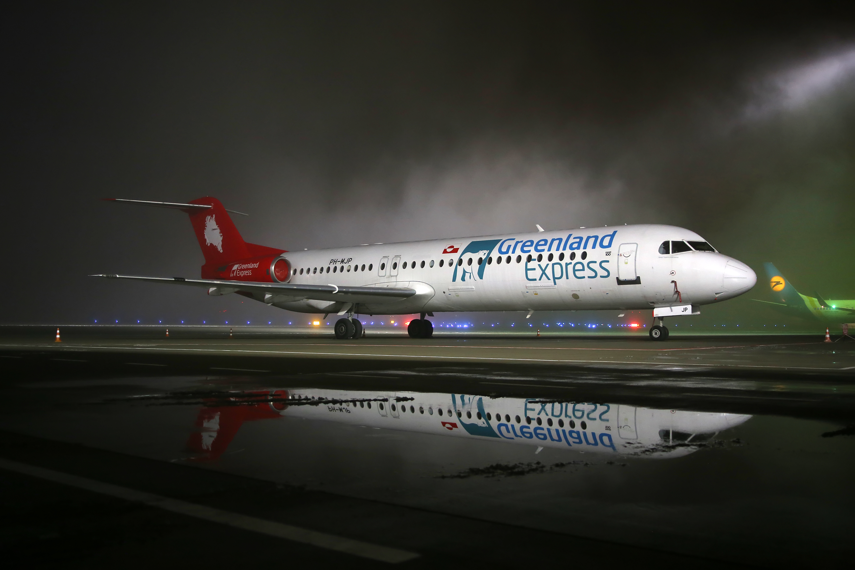 Greenland Express Fokker F100 at Lviv International Airport